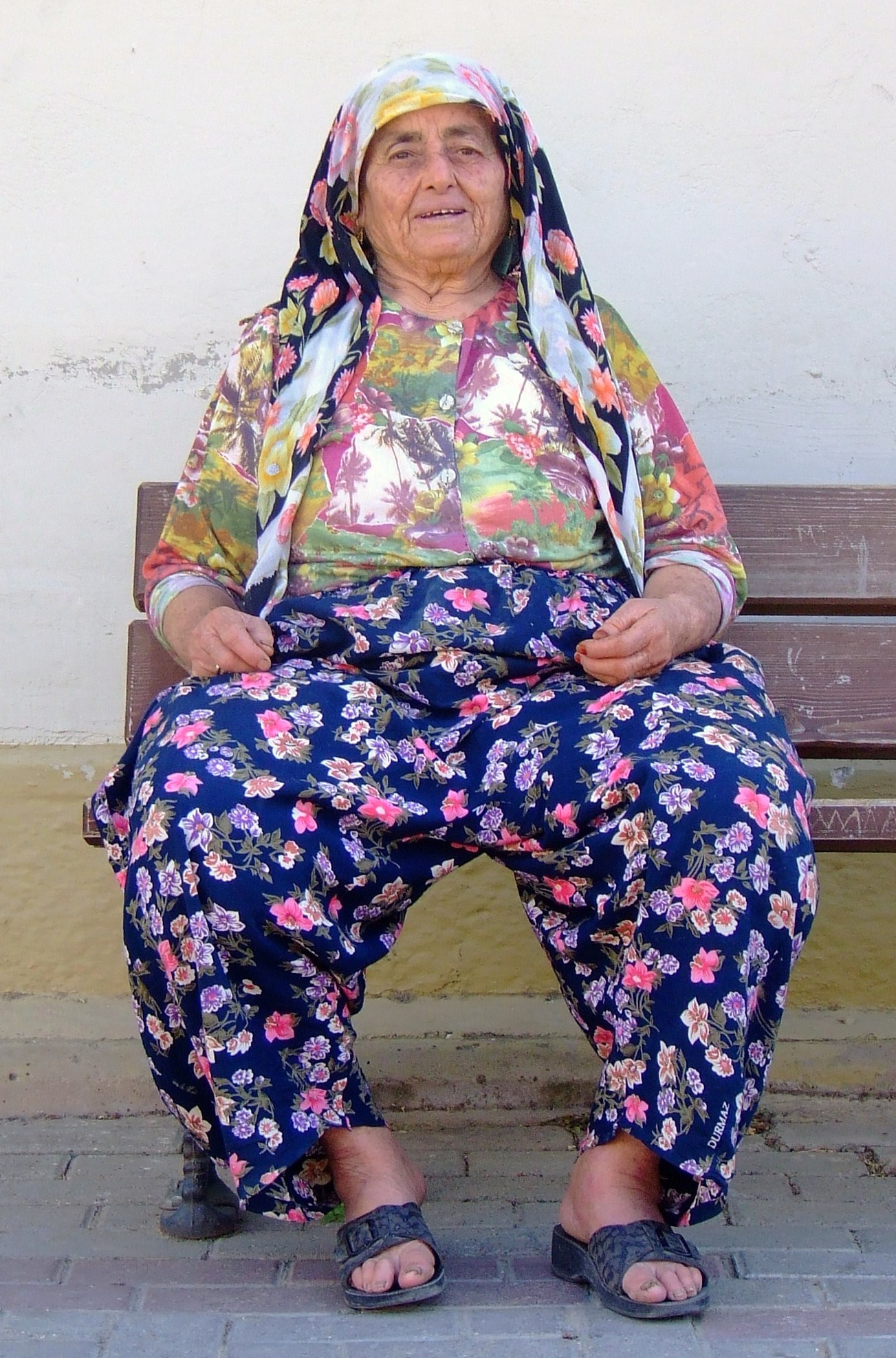 elderly woman in Selçuk, Turkey, wearing traditional Turkish dress